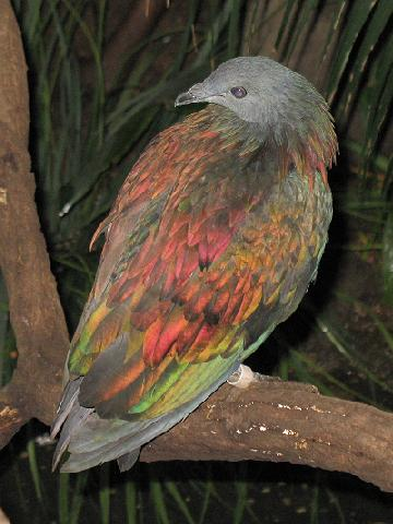 Description: Nicobar Pigeon - Source: own work - Location: Bronx Zoo, New York - Author: self, User:Stavenn